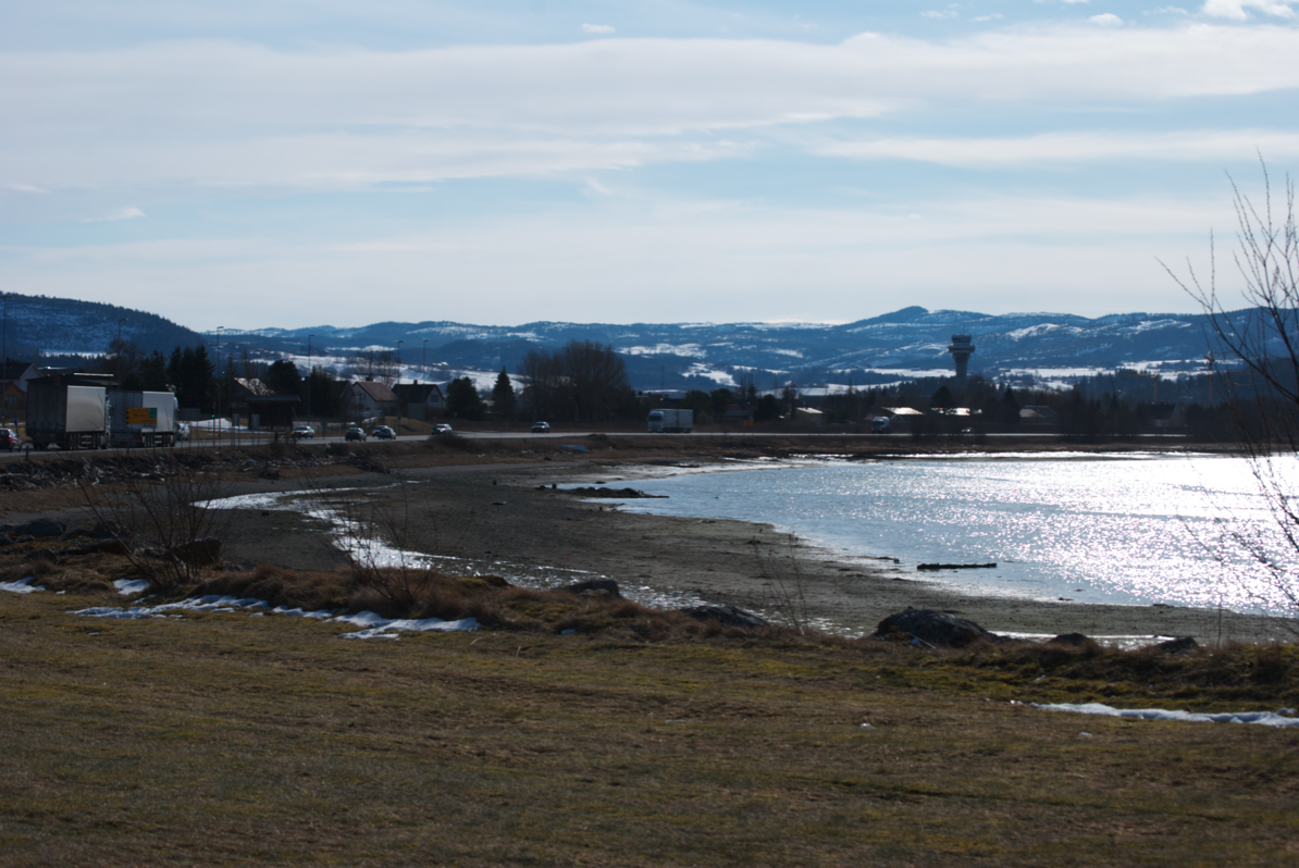 Halsøen in the center of Stjørdal in Norway, early in the spring (March).